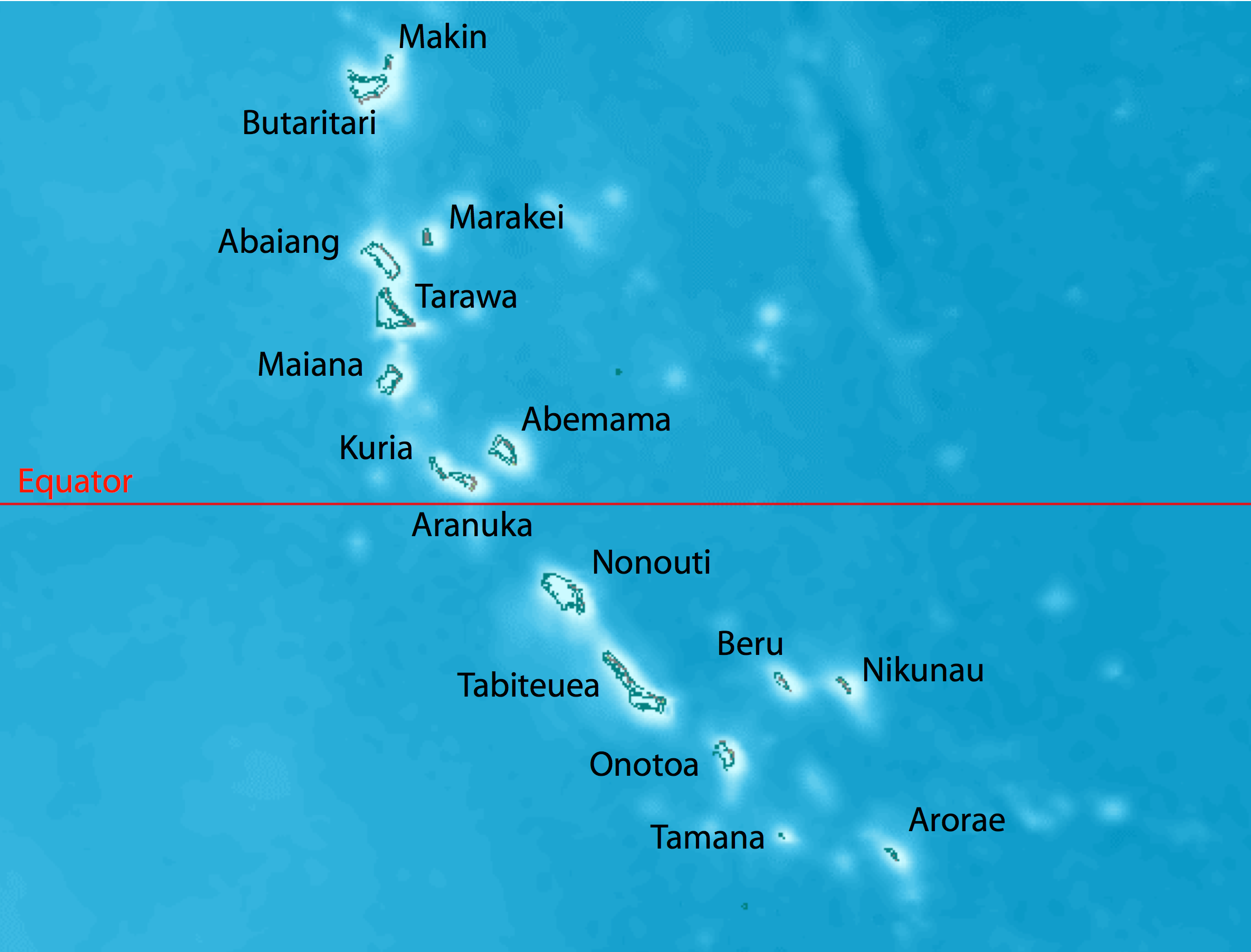 Position of Gilbert Islands